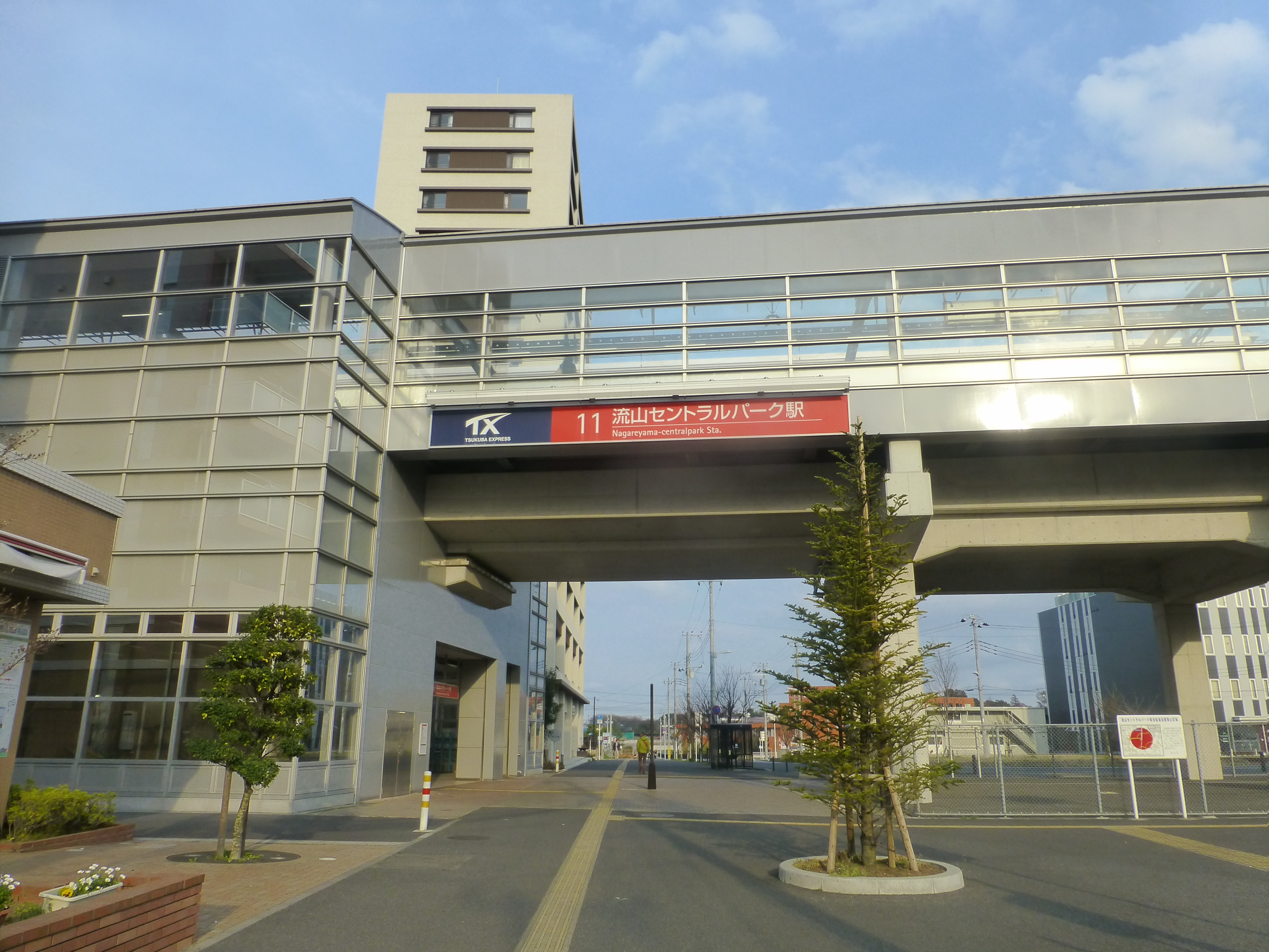 Nagareyama-centralpark Station (流山セントラルパーク駅)